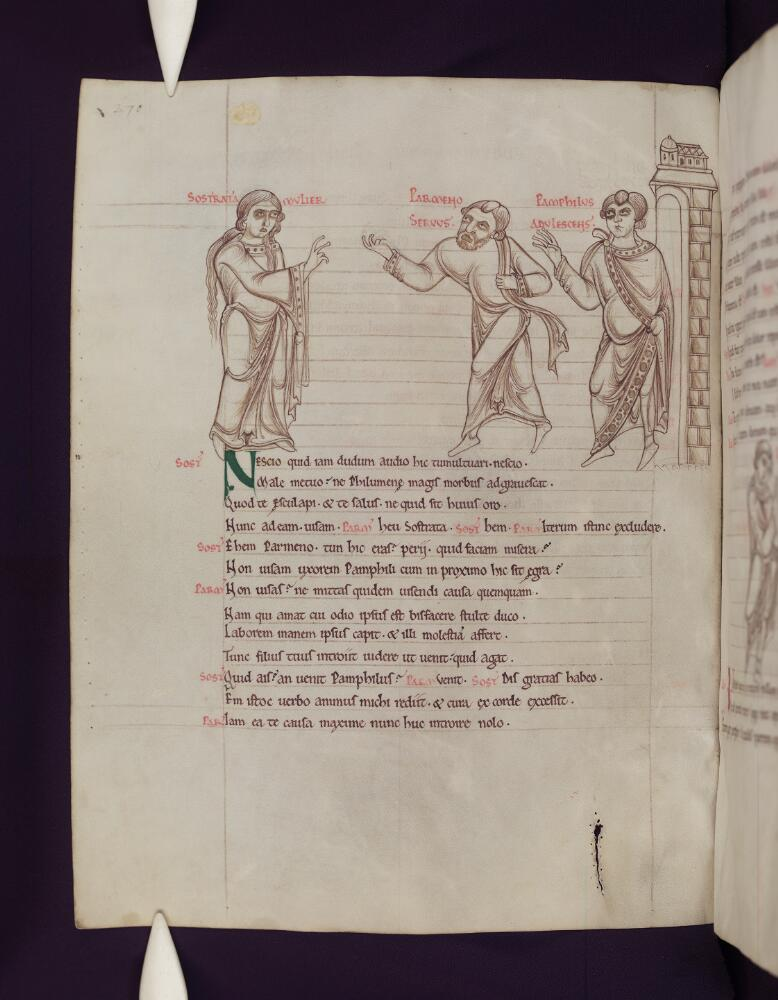 Terence's Comedies, in Latin, with Romanesque drawings comprising the latest version of the Late Antique cycle of scene-illustrations, St. Albans Abbey, mid 12th century. The first of the four artists (fols. 2v-17v) is identifiabl e as 'The Master of the Apocrypha Drawings' in the Winchester Bible. The illustrations for Andria V.1-2 at fol. 28r-v are missing in the Caroli ngian witnesses.; 137v